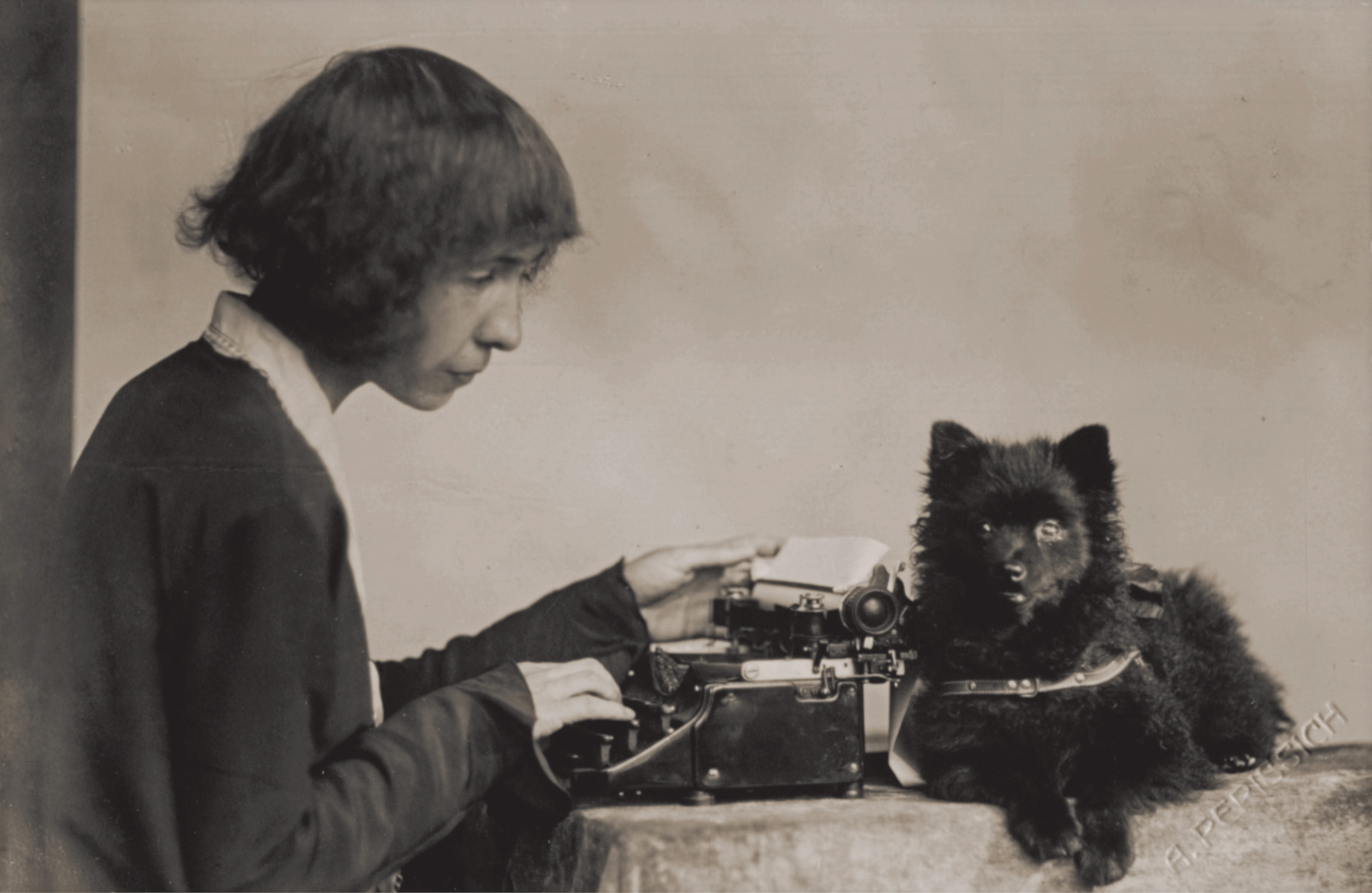 Alma Karlin (1889-1950)